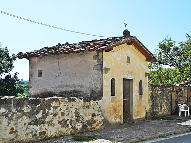 oratory